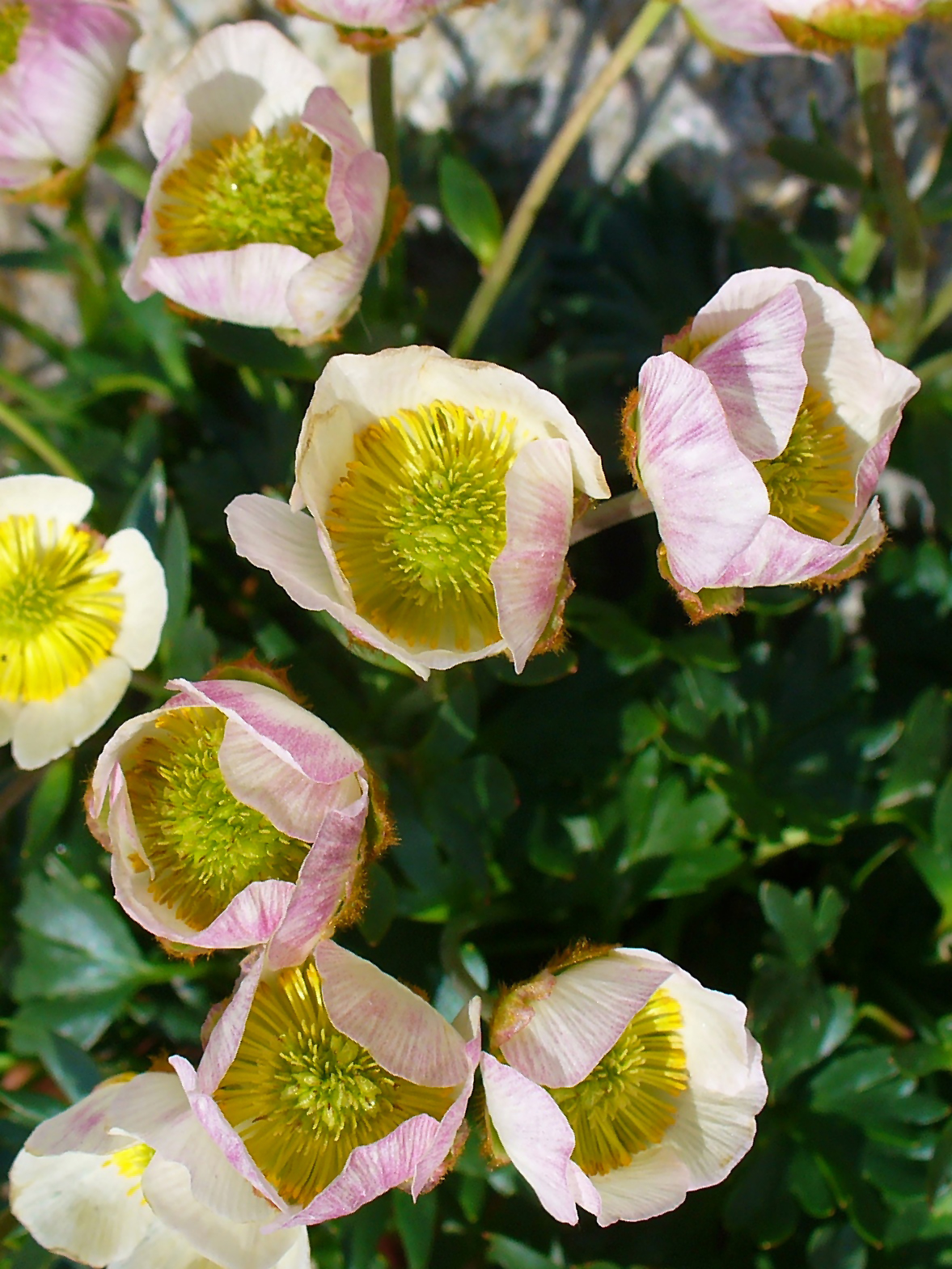 Ranunculus glacialis, Ranunculaceae, Glacier Crowfoot, Glacier Buttercup, flowers; Diavolezza, Engadin, Switzerland, altidude ca. 3.000 m. The plant is used in homeopathy as remedy: Ranunculus glacialis (Ran-g.)